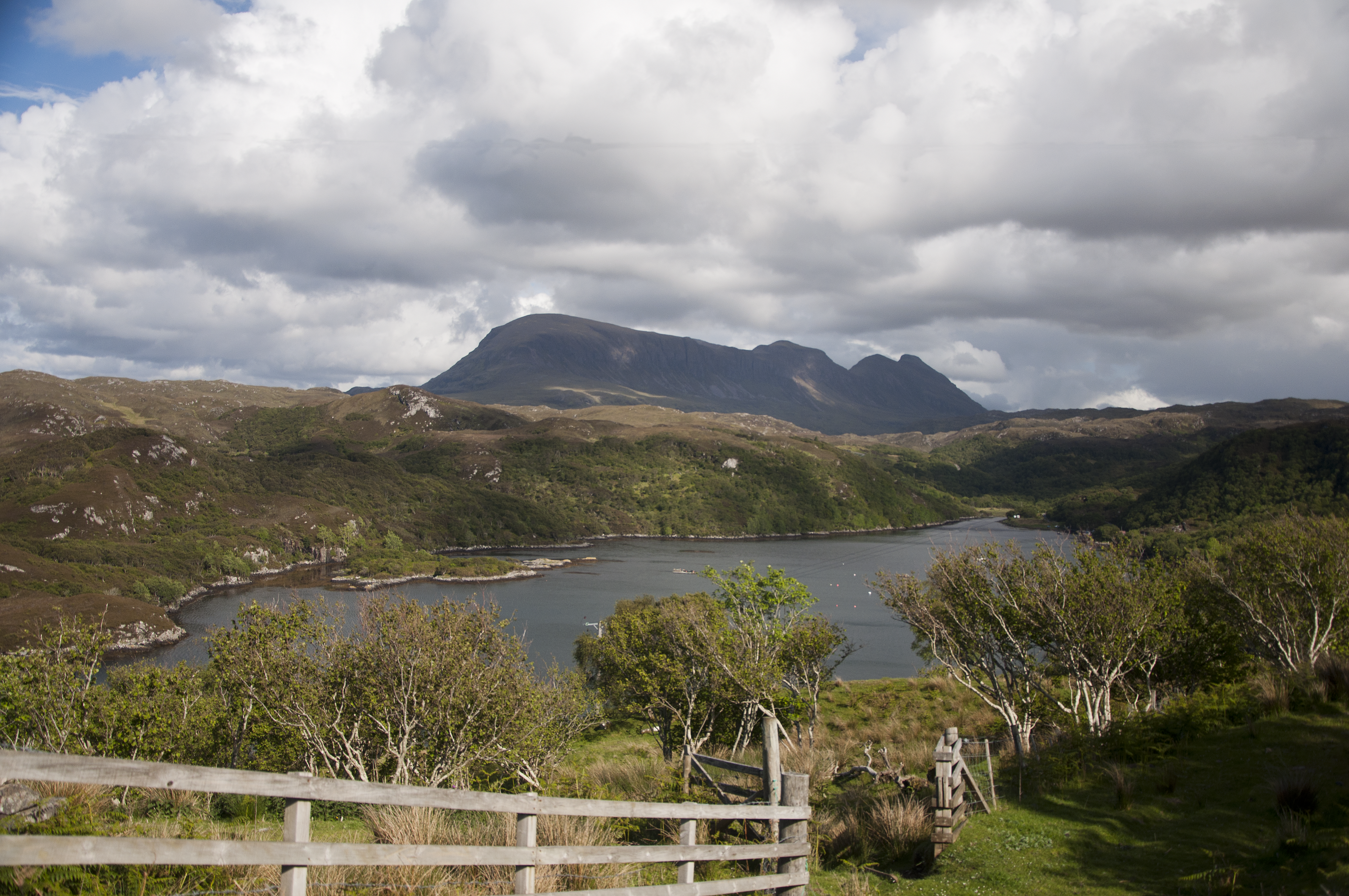 Nedd, Loch Nedd and Quinag, Sutherland, Scotland